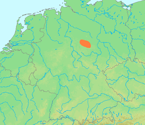 Locator maps for mountain ranges : Location Harz.PNG